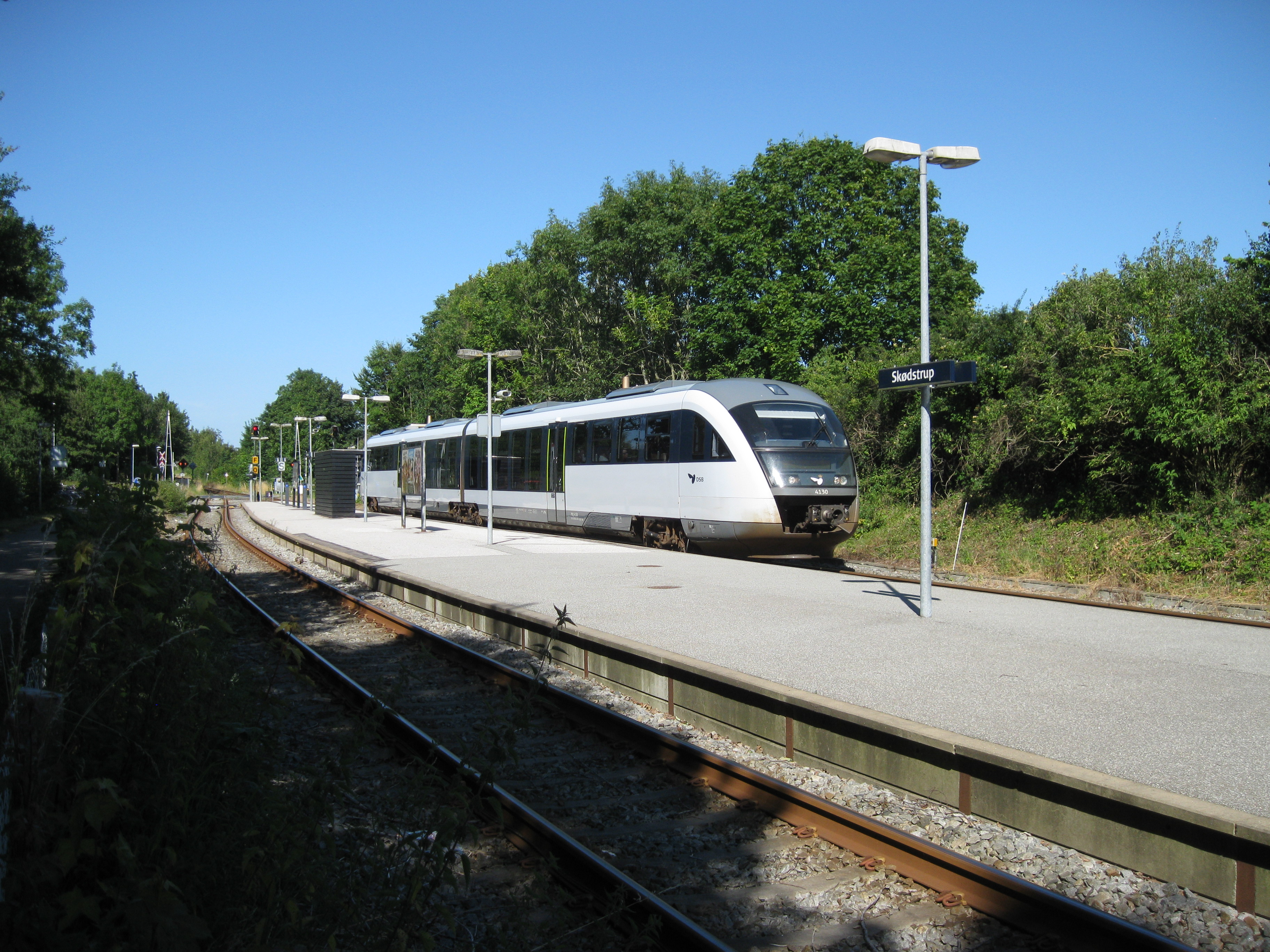 Skødstrup train station, Denmark